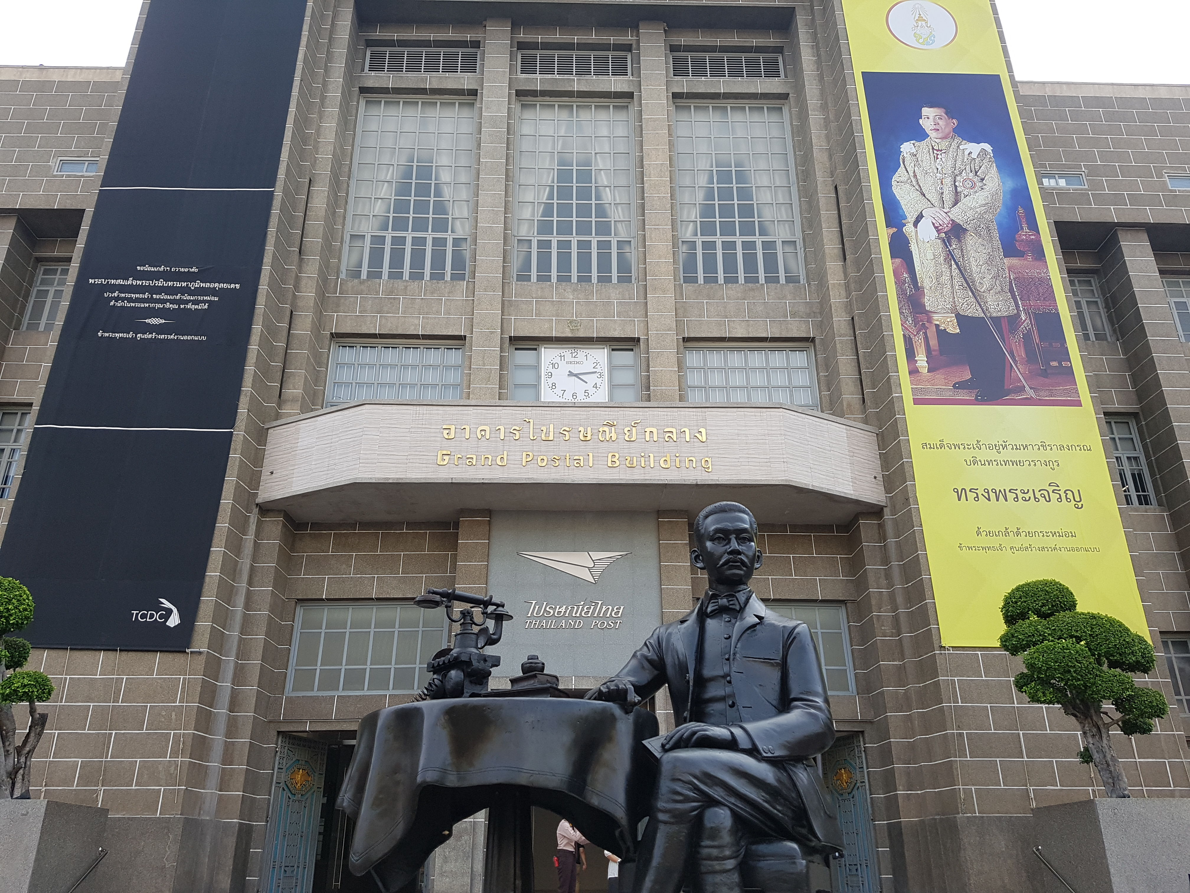 General Post Office, Bangkok, Thailand.